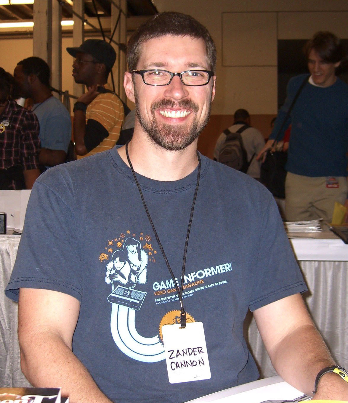 Comic book creator Zander Cannon at the New York Comic Convention in Manhattan, October 9, 2010. Photo by Luigi Novi. This photo may be used, modified and published for any purpose, only if a easily visible credit to the photographer is placed near the photo in each instance in which it is used. (See licensing information below.) Publication of this photo without this proper attribution constitute copyright infringement. For more information on my photos, you can contact me here.